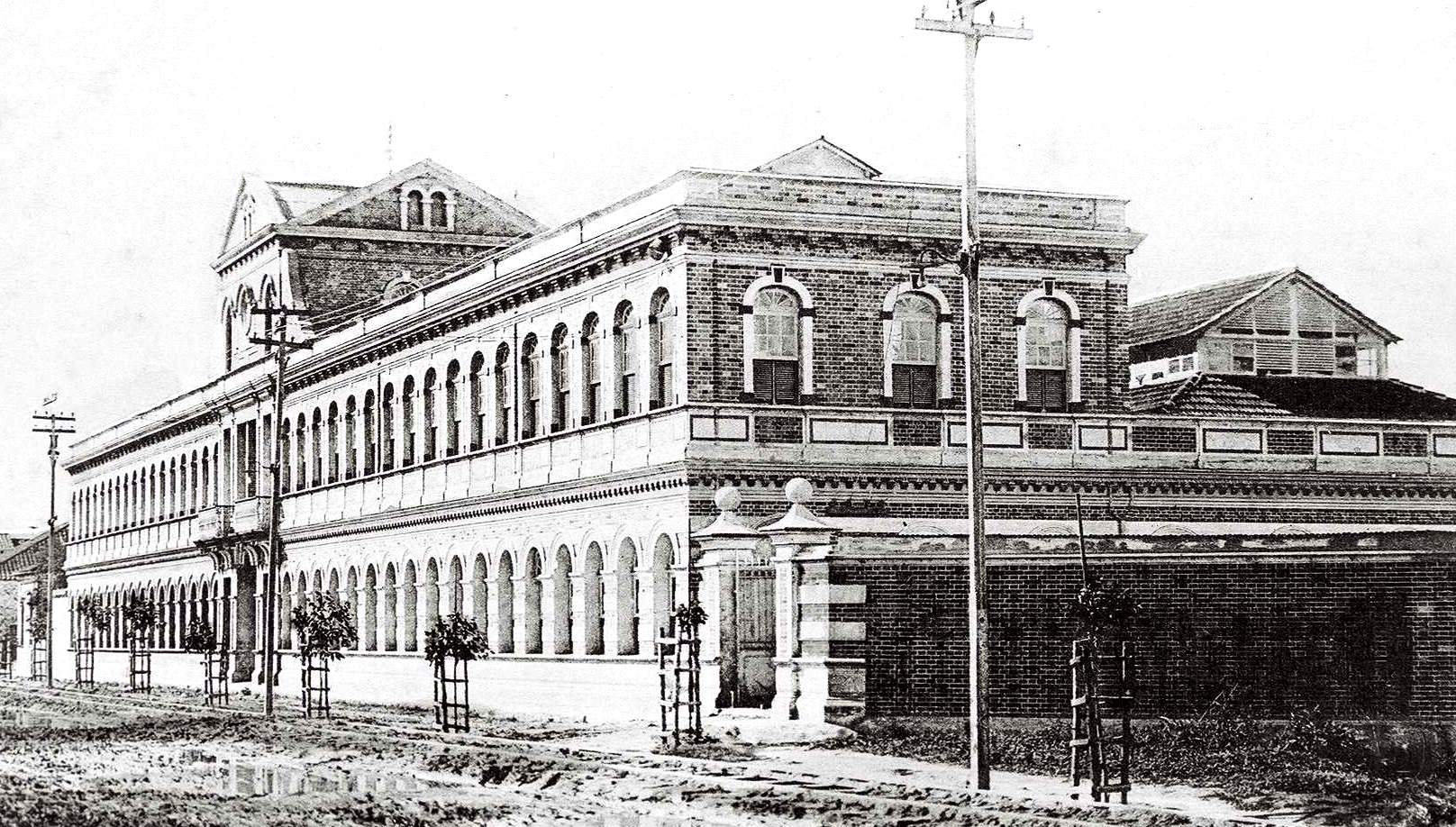 Building of the then textile industry "Companhia Têxtil Bernardo Mascarenhas", today "Centro Cultural Bernardo Mascarenhas", Juiz de Fora, Brazil.